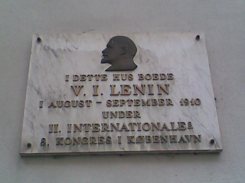 Plaque at Vesterbrogade 112a, where Lenin lived in Copenhagen